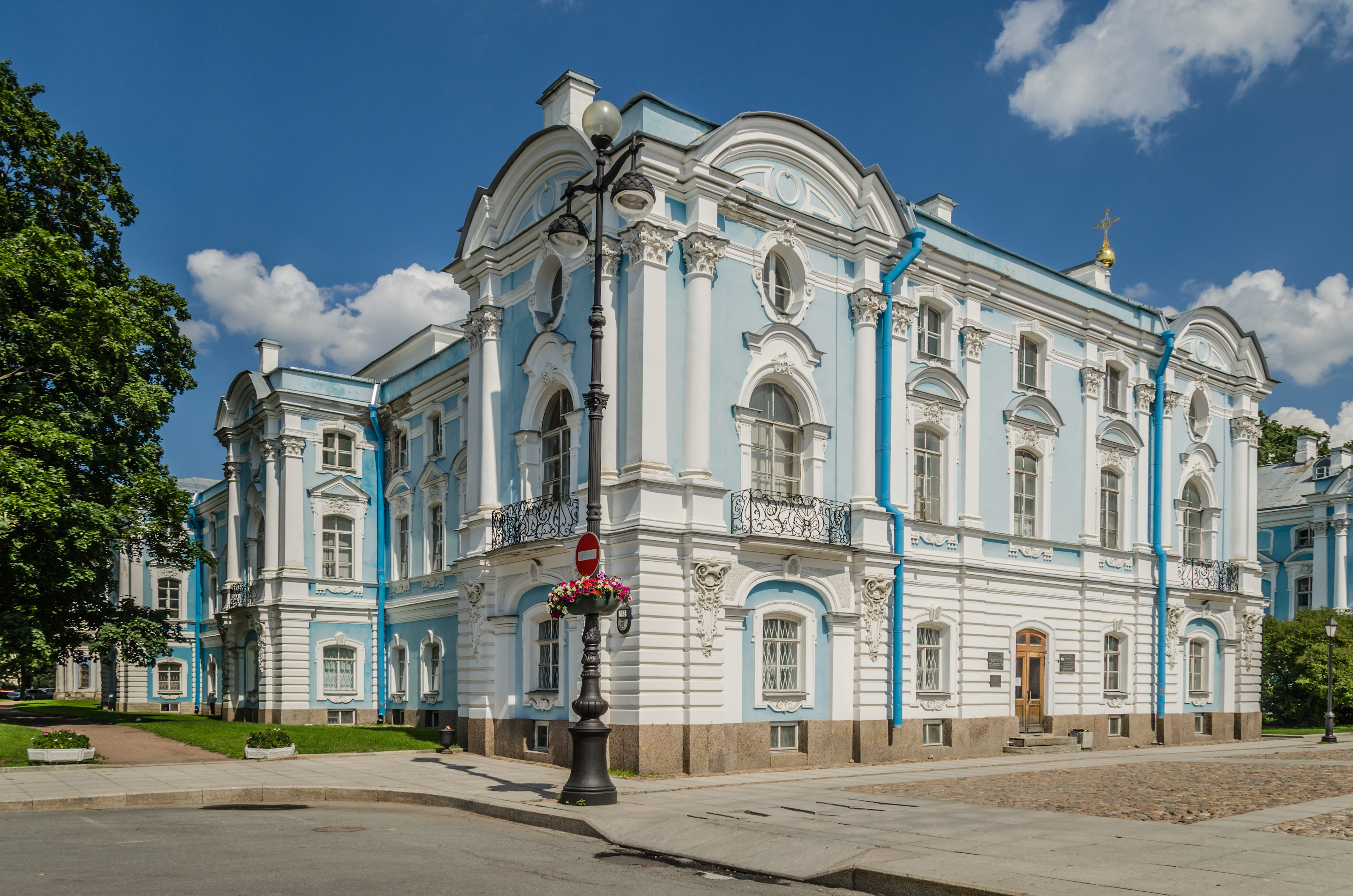 Smolny convent building in Saint Petersburg